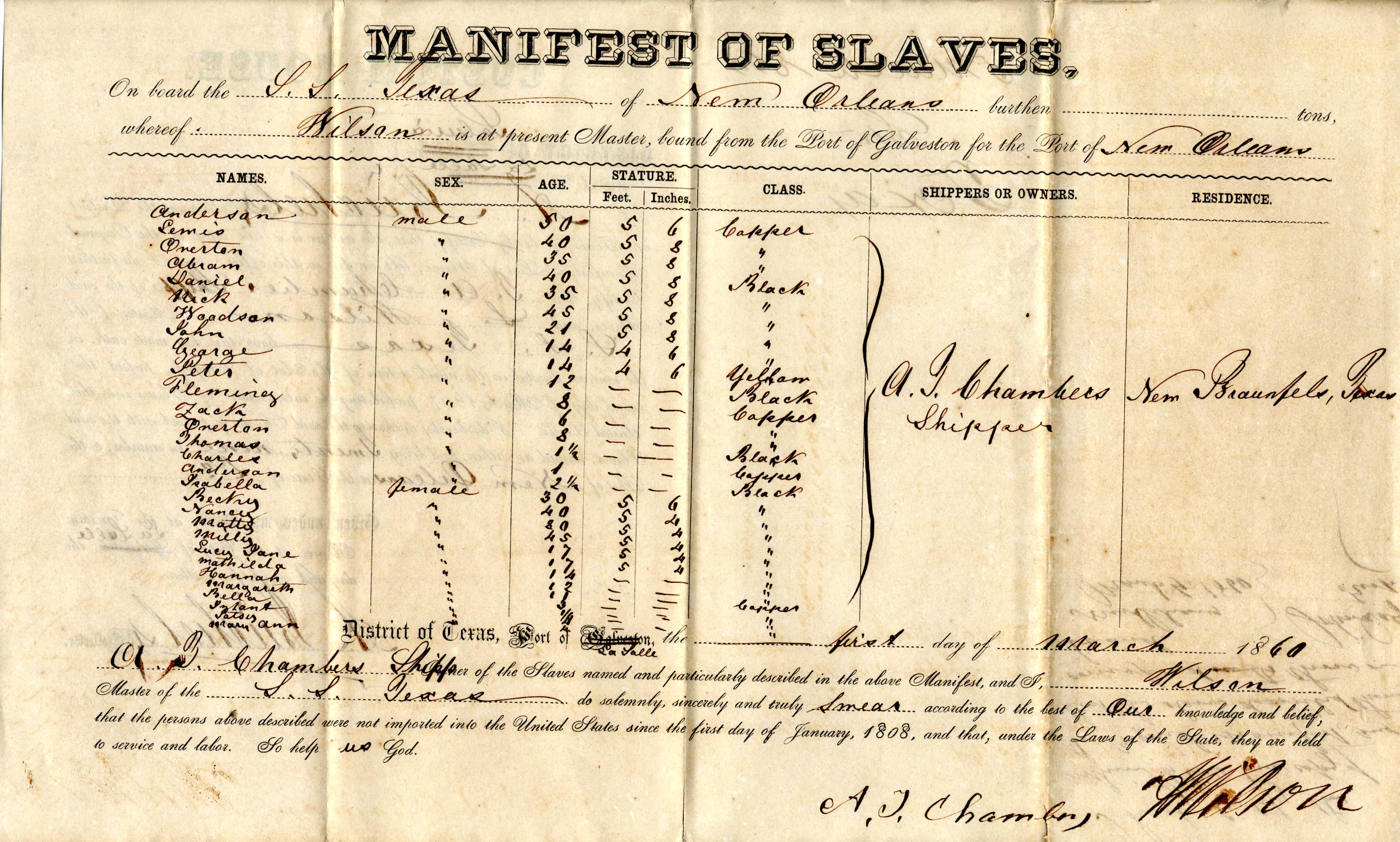 Original Caption: Slave Manifest of the S.S. Texas from La Salle to New Orleans Arrived March 5, 1860 U.S. National Archives' Local Identifier: 6210358 Created by: Department of the Treasury. Customs Service. Collection District of New Orleans (Louisiana). (1804 - 1913) From: Series: Slave Manifests, compiled 1817 – 1861 Production Date: March 5, 1860 Persistent URL: Repository: National Archives at Fort Worth, TX. Access Restrictions Unrestricted Use Restrictions: Unrestricted